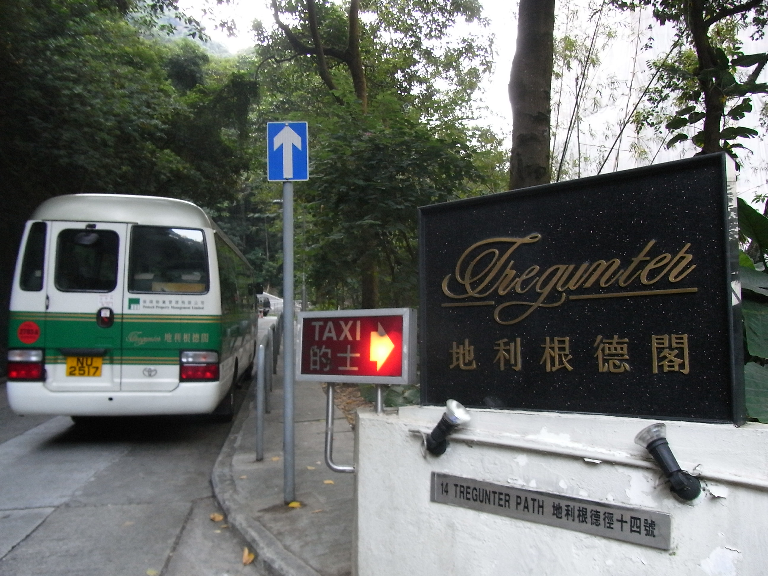 香港島半山區 地利根德里, Tregunter Path, Mid-levels, Central, Hong Kong